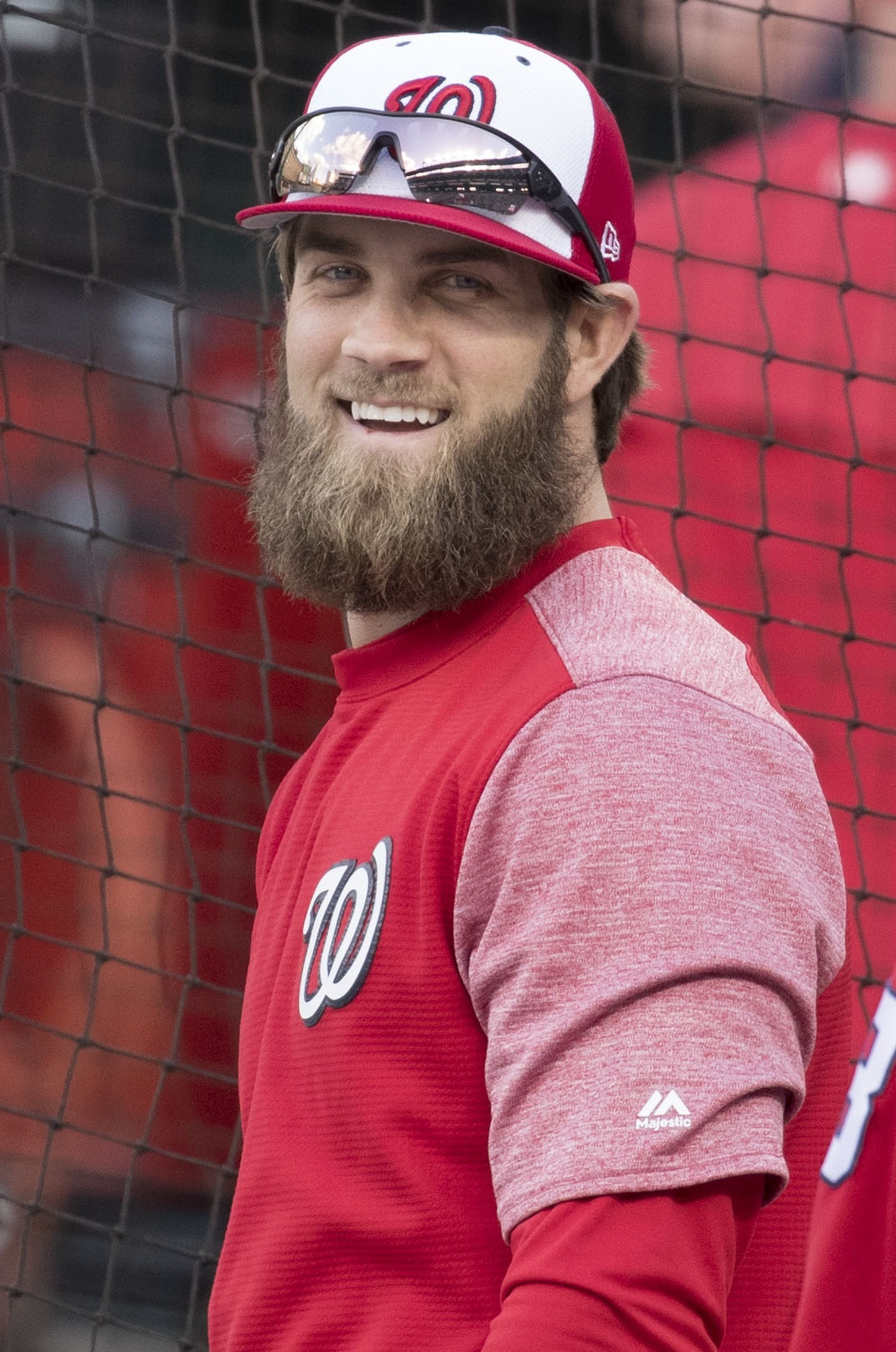 Nationals at Orioles 5/8/17